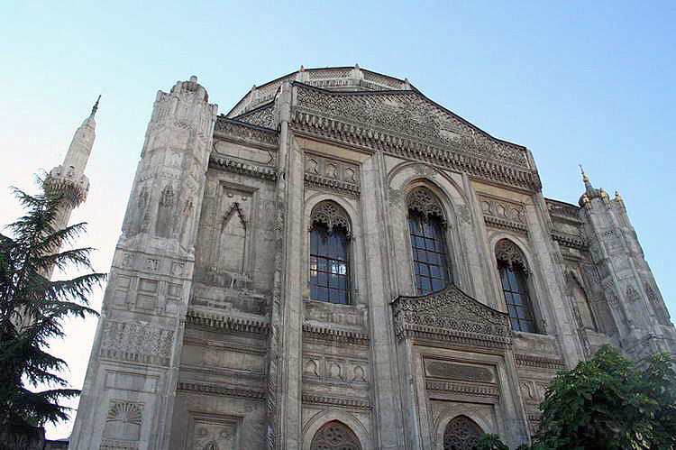 Pertevniyal Valide Sultan Mosque in Aksaray, Aksaray, Istanbul, Turkey